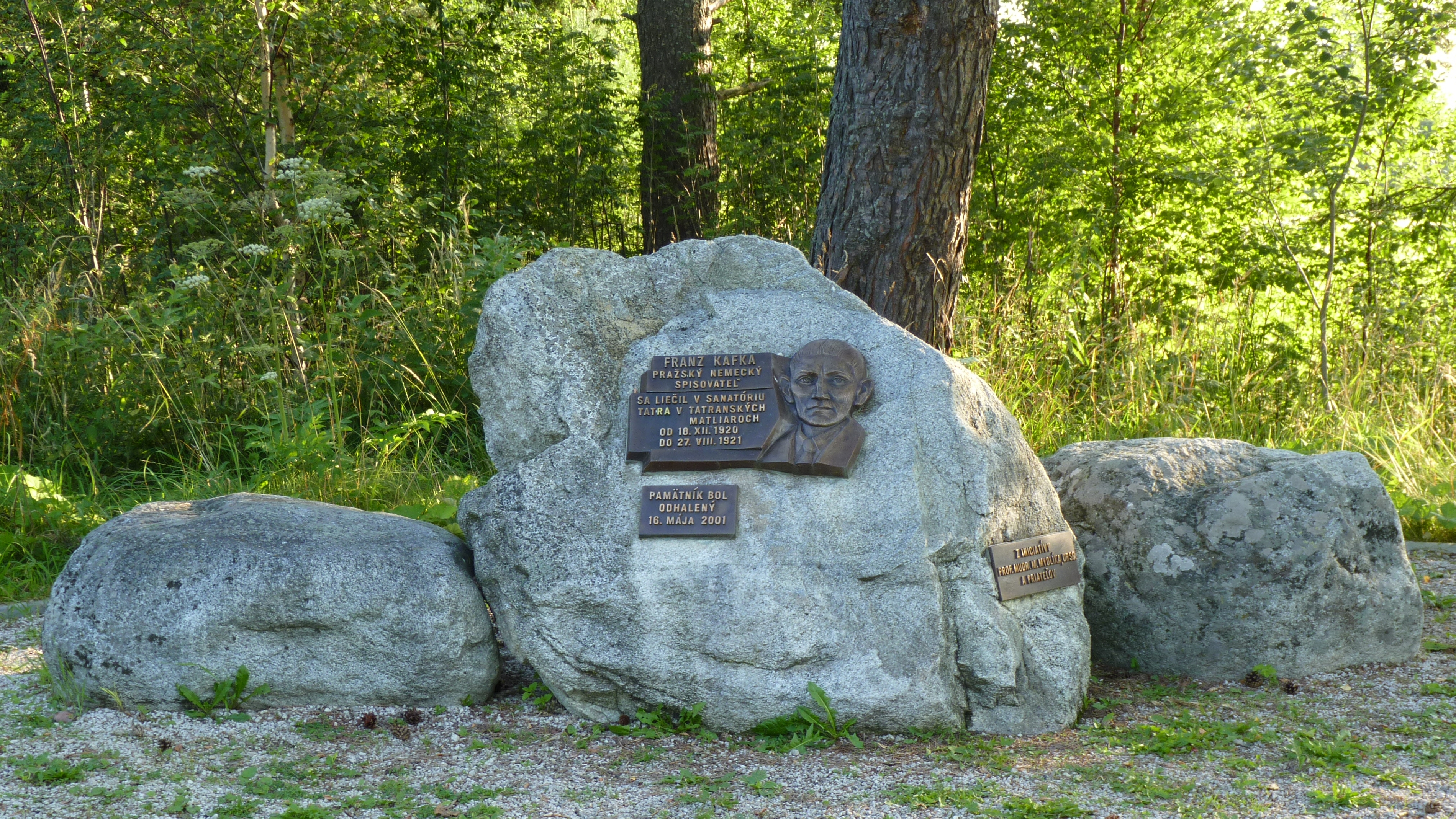 Tatranské Matlaiare, Slovakia